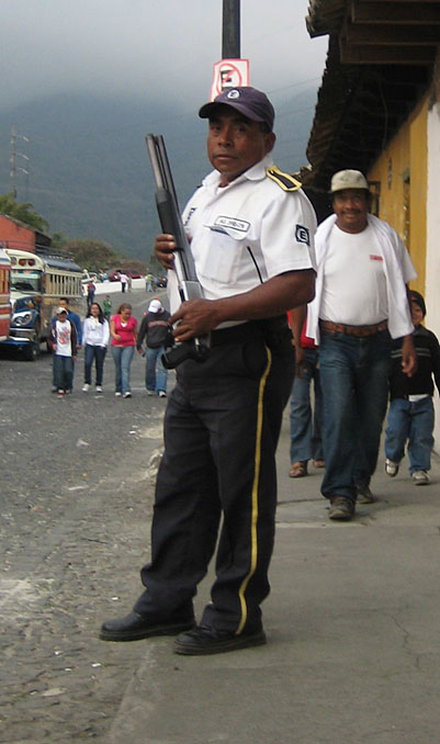 Private security guard with shotgun, guarding a bank in Antigua Guatemala.